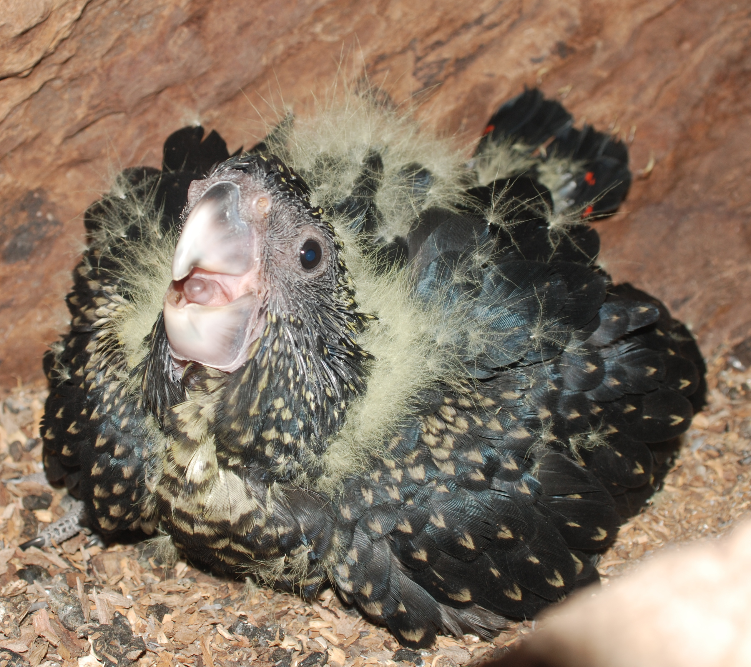 Red Tail Black Cockatoo at 6 weeks of age